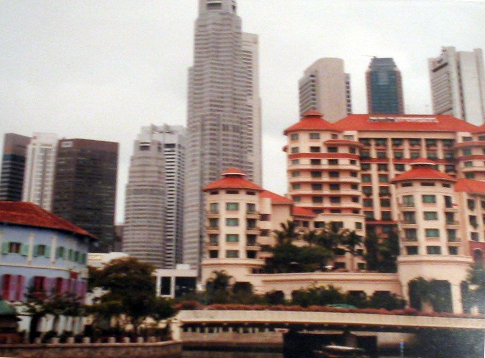 The Swissôtel Merchant Court Singapore hotel with the skyline of the Central Business District of Singapore in the background.